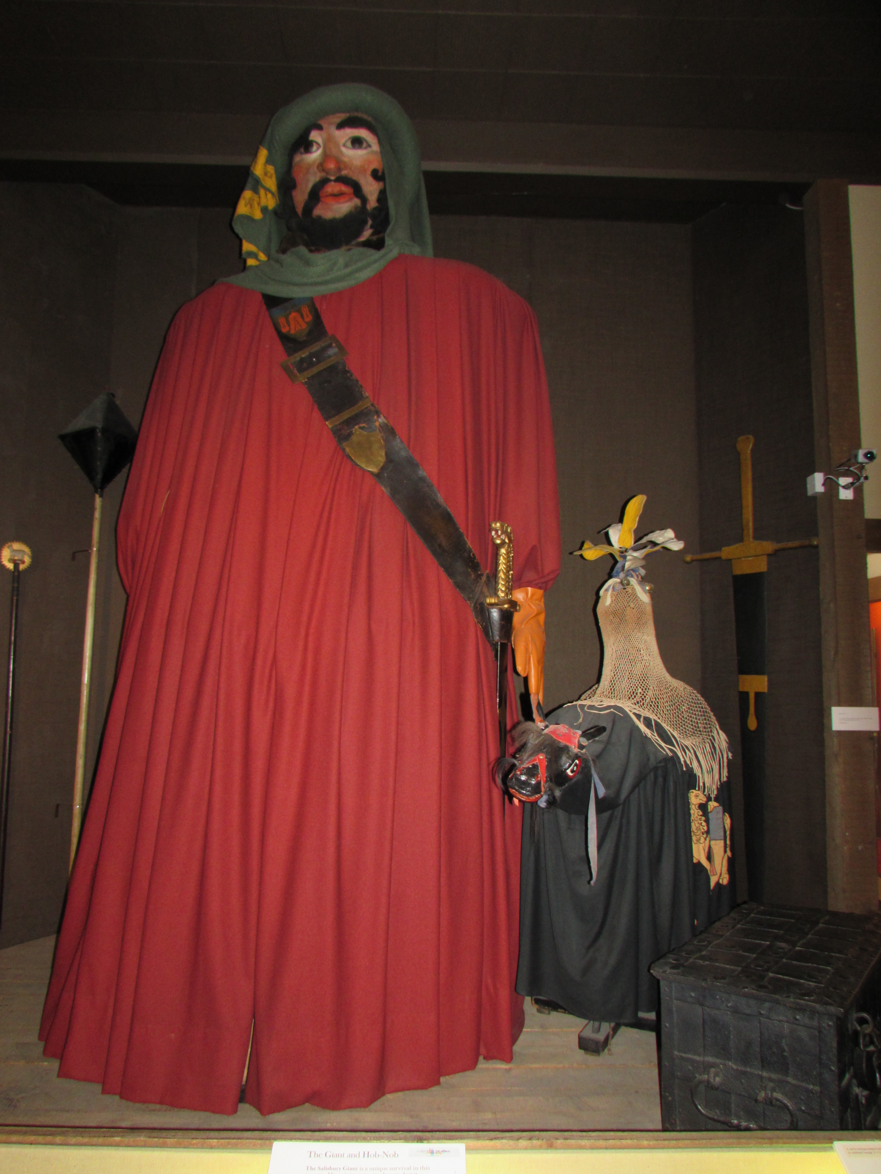 A medieval processional figure dating from the 15th century. Also called St Christopher he belonged to the Tailors Guild in Salisbury and was bought by Salisbury Museum in 1873 for 30 shillings (£1.50). He is accompanied by an odd looking creature called Hobnob who cavorted about during processions clearing a path for The Giant. 12 feet tall with a leather baldric over his shoulder decorated with the arms of the Tailors Guild his wooden frame was rebuilt in the mid-19th century. The figure is in the Salisbury Museum from where he is unlikely to be processing in the forseeable future.